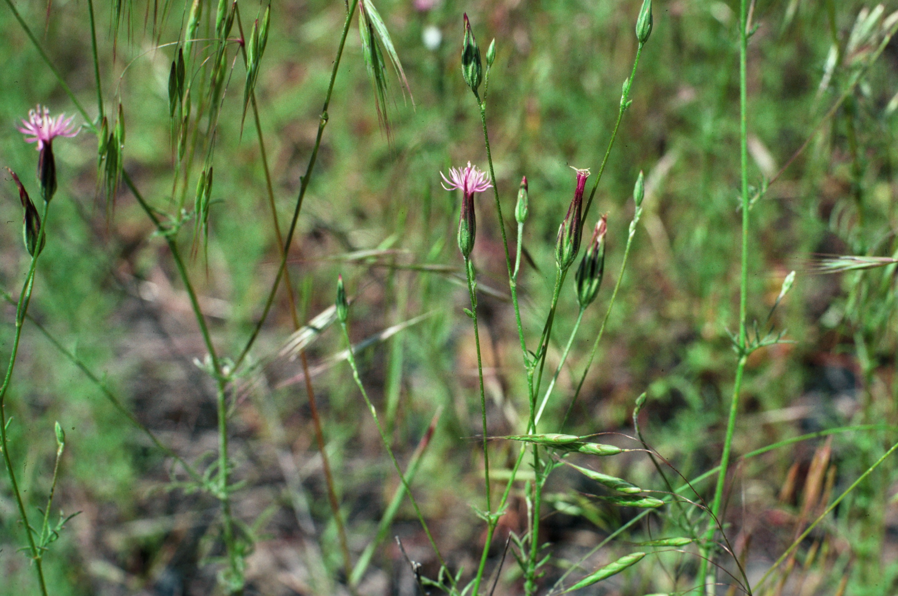 Crupina vulgaris, USA